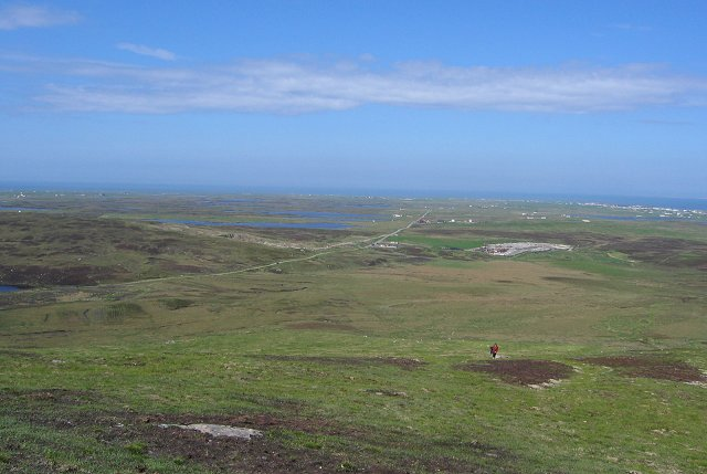 Benbecula view from Ruabhal top towards west, Outer Hebrides, Scotland